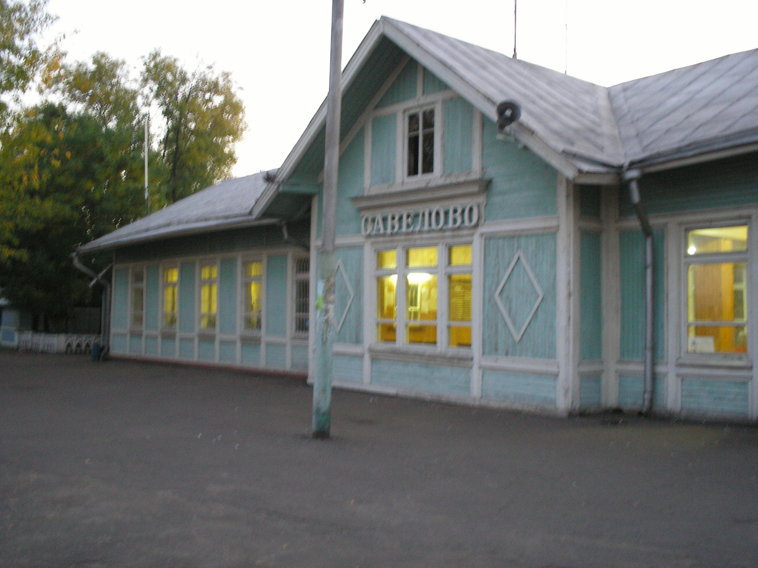 Station building of Savyolovo railway station (town of Kimry), opened in 1902.